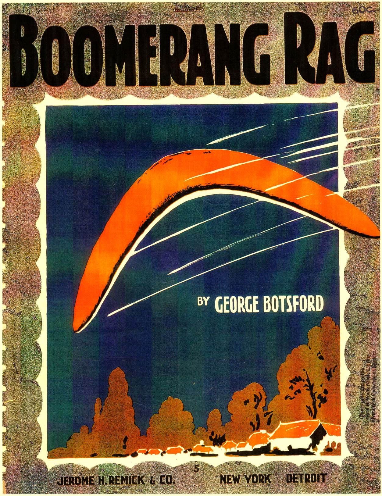 Boomerang Rag sheet music cover, 1916